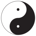 Yin Yang, central symbol of ancient Chinese philosophy Taoism, sometimes referred to as “Taijitu.”